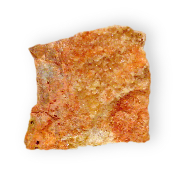 These mineral images are free to use how you wish.